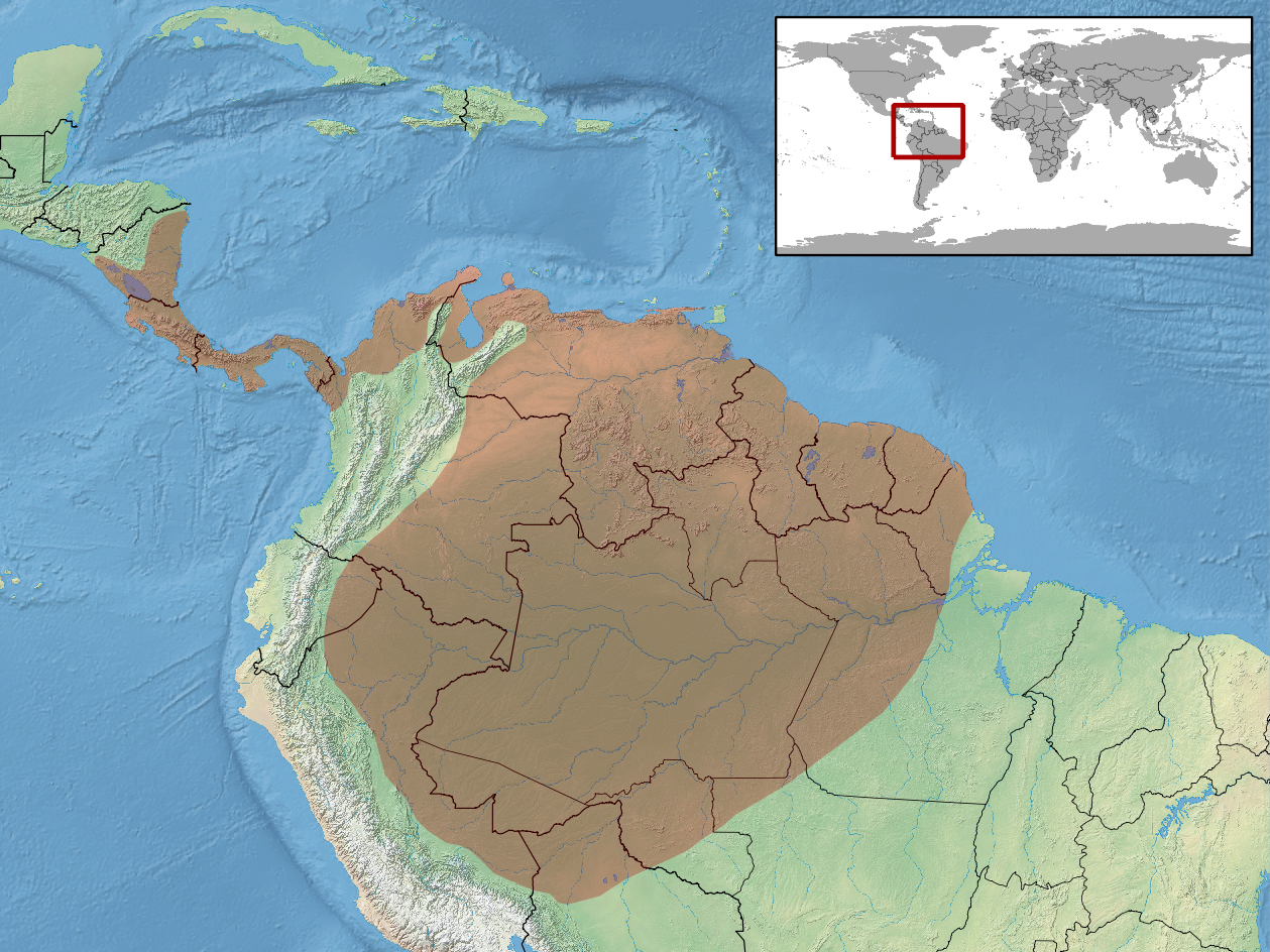 geographic distribution of Drymobius rhombifer (Native: Bolivia, Plurinational States of; Brazil; Colombia; Costa Rica; Ecuador; French Guiana; Guyana; Nicaragua; Panama; Peru; Suriname; Venezuela)